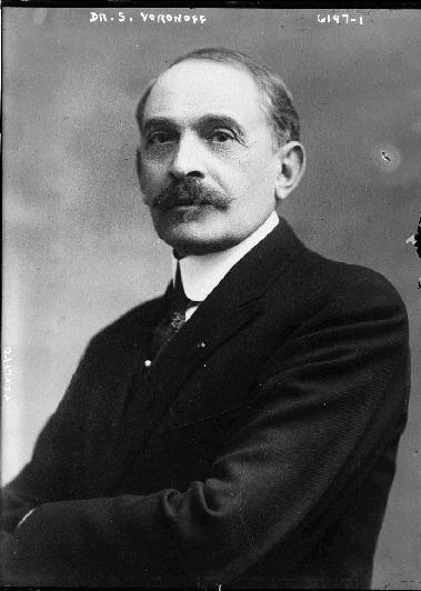 1920 image of Dr. Serge Voronoff from the Library of Congress collections.